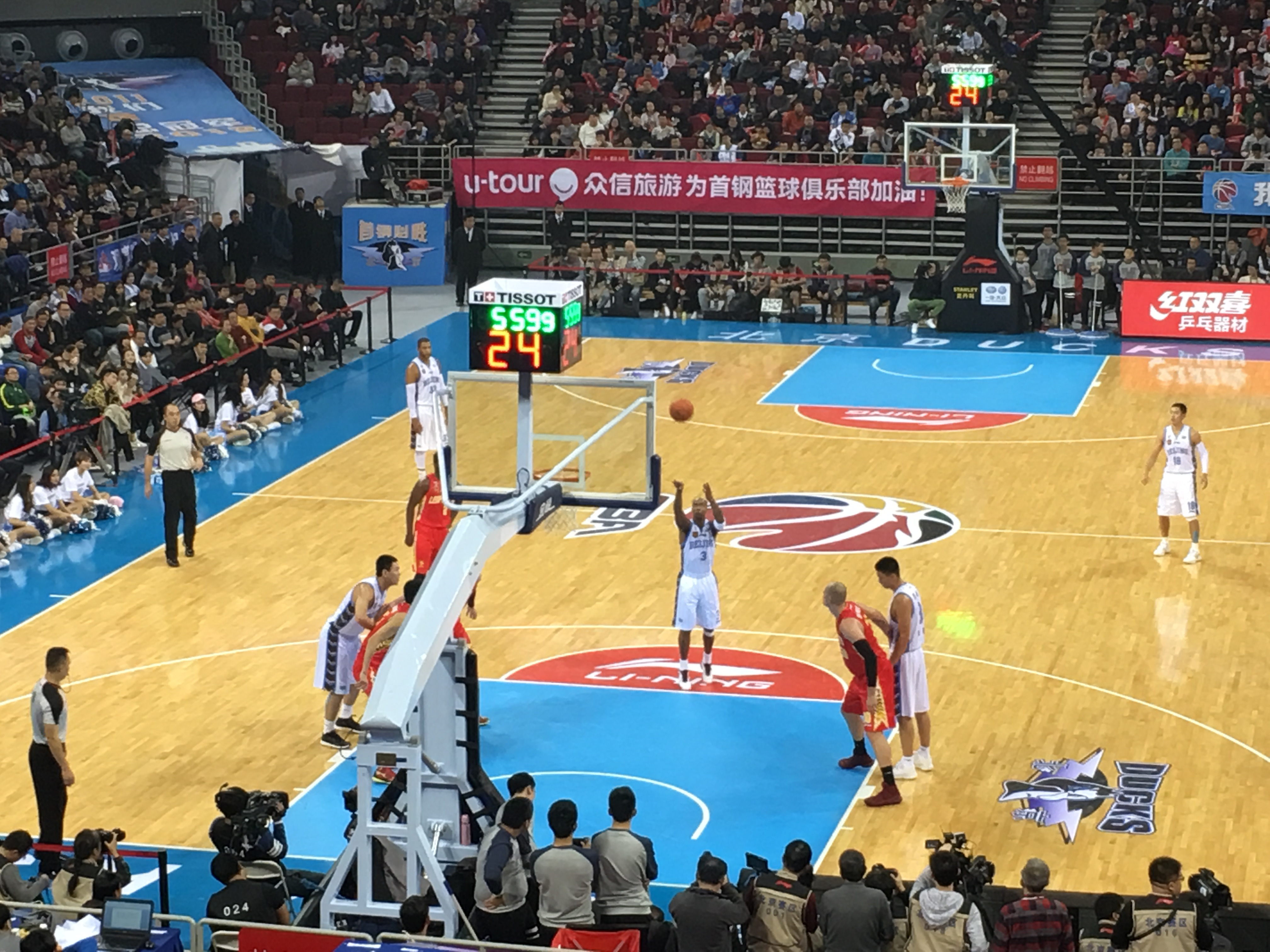 Stephon Marbury (Beijing Ducks) throwing a free throw at Beijing Ducks vs Shenzhen Leopards on December 4th 2016 at the LeSports Center, Beijing